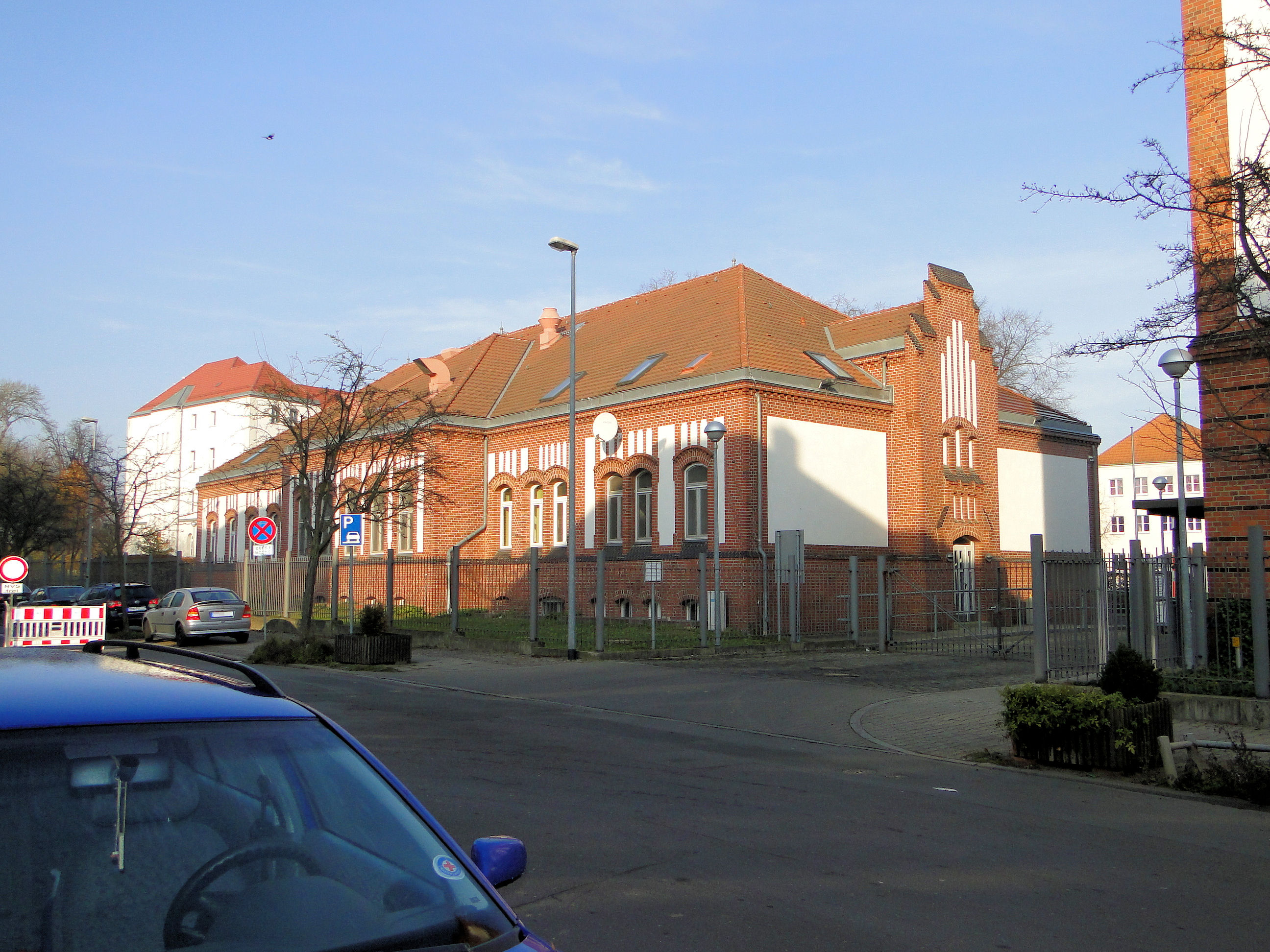 Barack building in Schwerin, Mecklenburg-Vorpommern, Germany